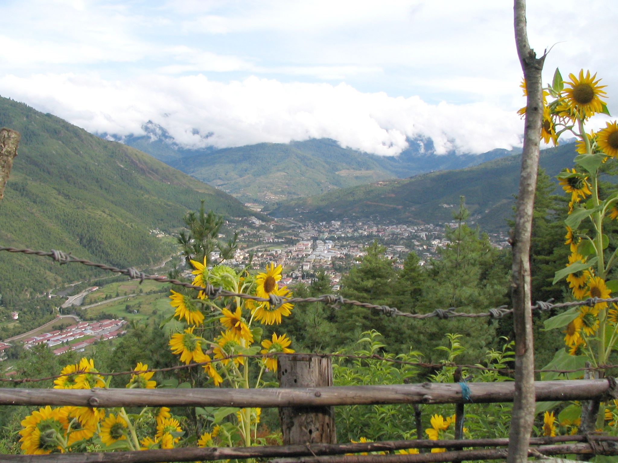 Thimphu from Sangey Gang